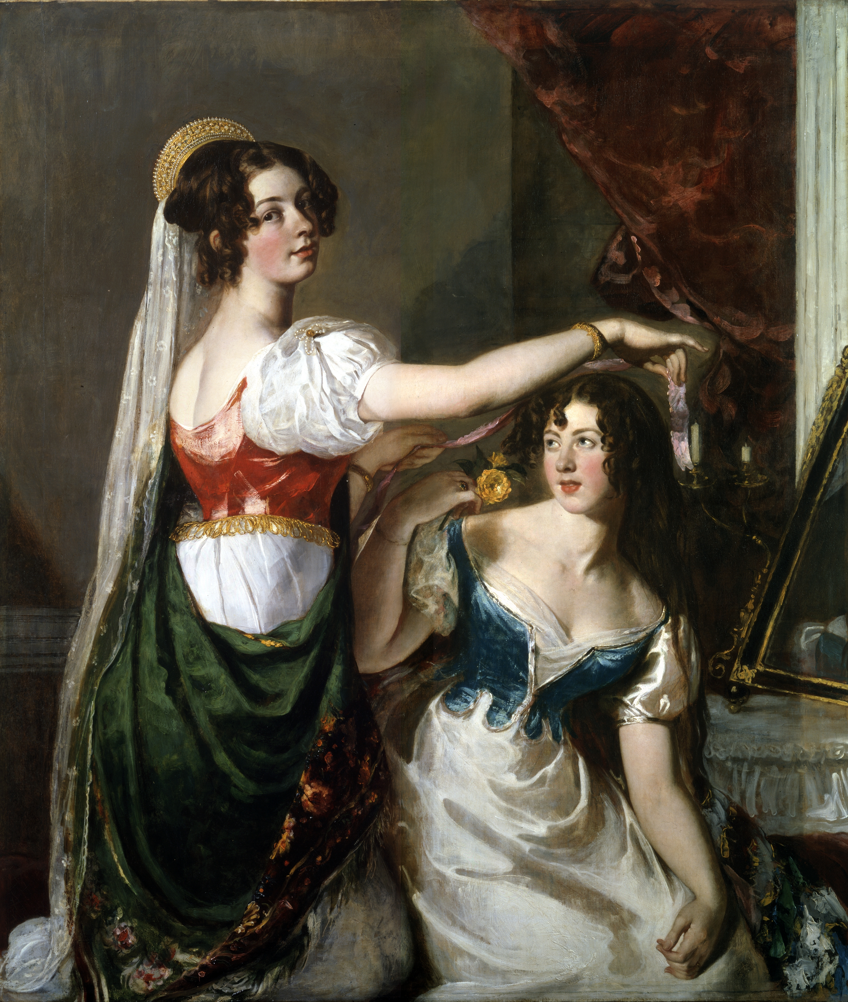 3/4 length fancy double portrait of sisters Charlotte and Mary Williams-Wynn preparing for a fancy dress ball. Charlotte is standing facing the viewer and is about to place a ribbon in Mary's hair. Mary is seated and is holding a yellow flower in her right hand.